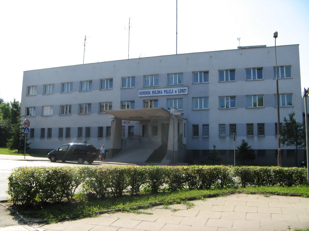 Police headquarters of Łomża.